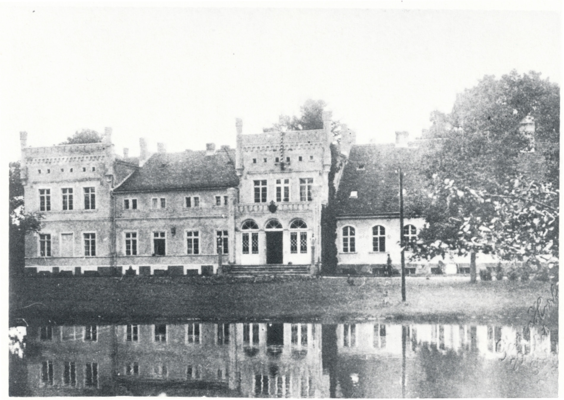 Manor of Puttkamer family in Łosino